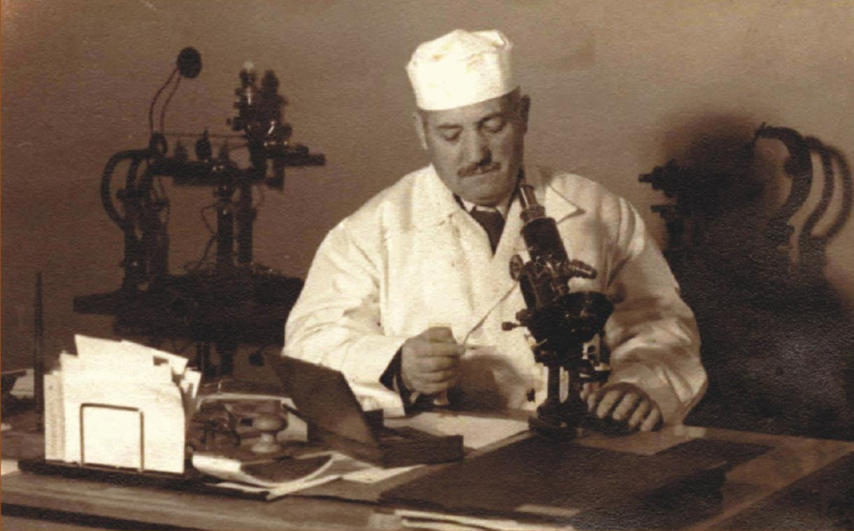 Professor Konstantin Pashev in Sofia 1935